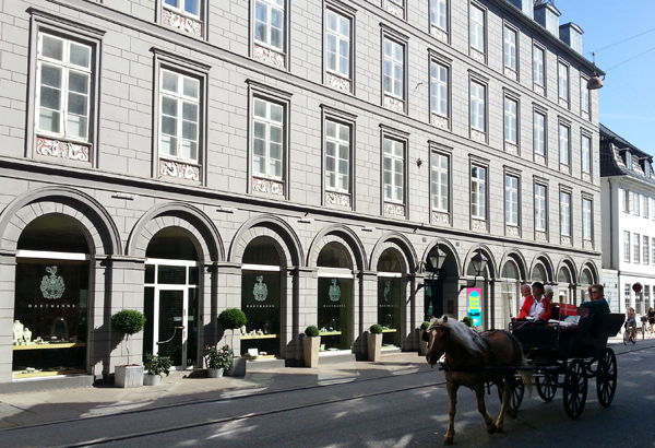 The building Grandjeans Gaard completed in 1854, pictured in 2013